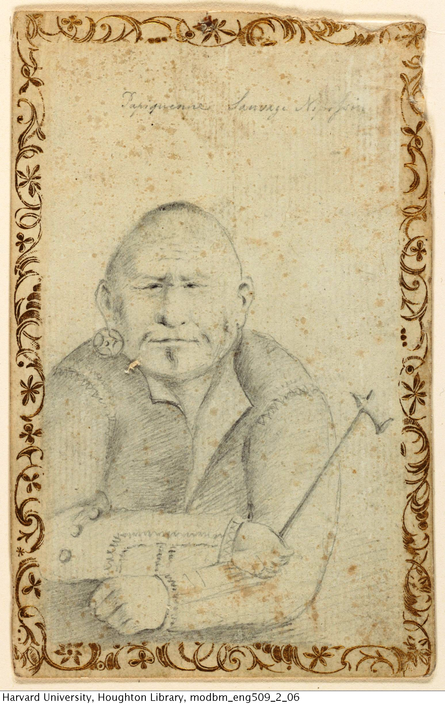 Graphite sketch by Henry Hamilton of a Nipissing man wearing a silver earring and holding a tomahawk, and wearing a leather coat of European cut. The name "Papiguenne" [Babigwen] means "the Flute."